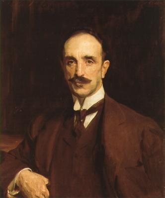 Douglas Vickers 1914 Owner? Oil 29 1/2 X 24 1/2 in. Signed and dated Jpg: choyeung